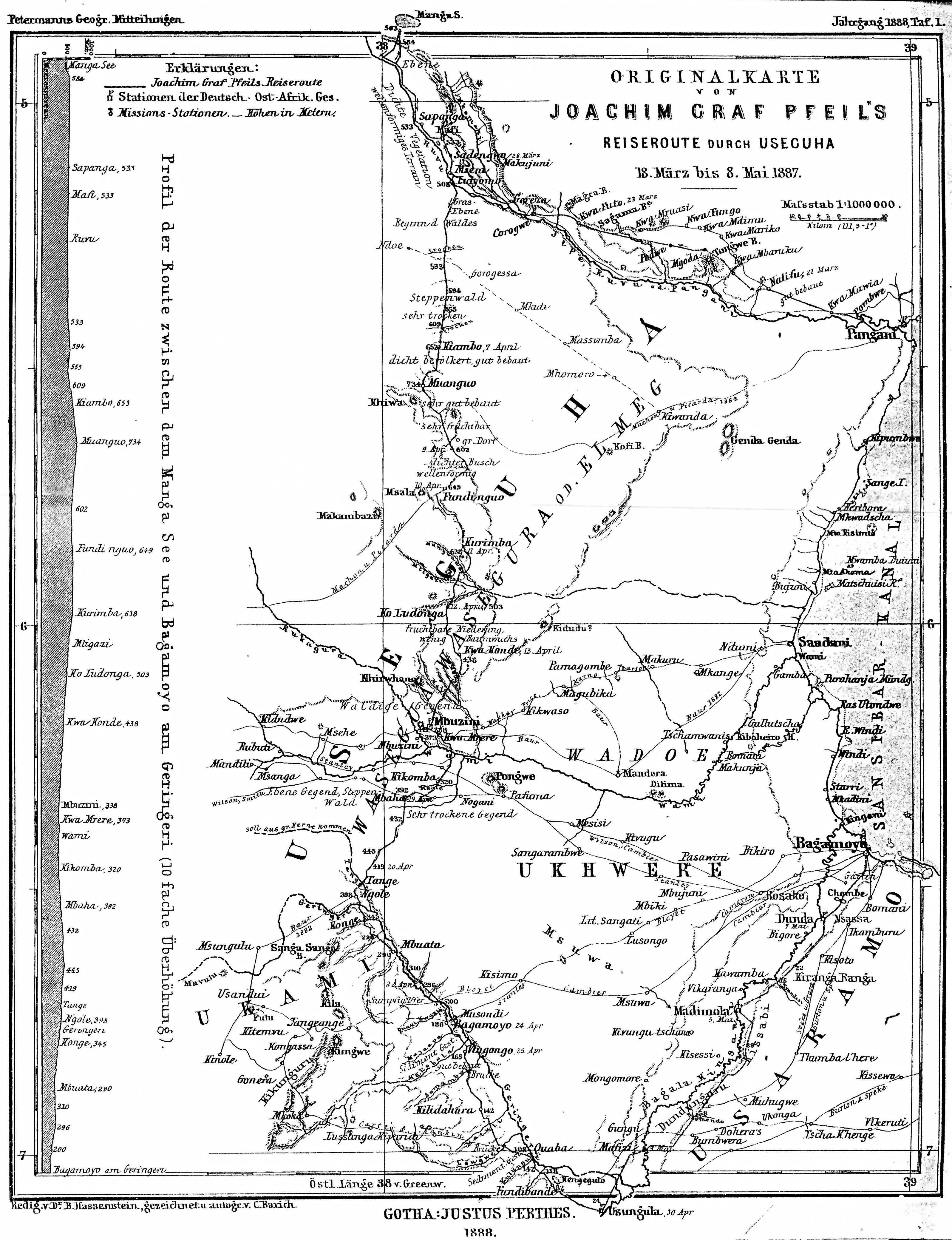 Map to the travels of Joachim, Count of Pfeil through the Useguha region and neighbouring areas (located in contemporary Tanzania, then German East Africa) in the time March to Mai 1887